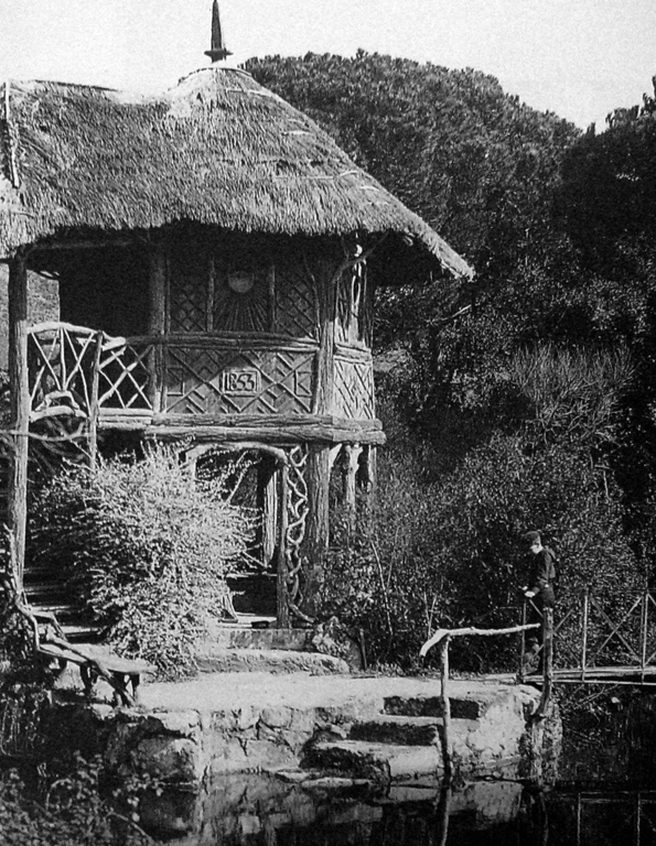 A cabin that used to be on the illa de l’amor (the “island of love”) in the Parc del Laberint d’Horta in Barcelona, Catalonia (Spain).